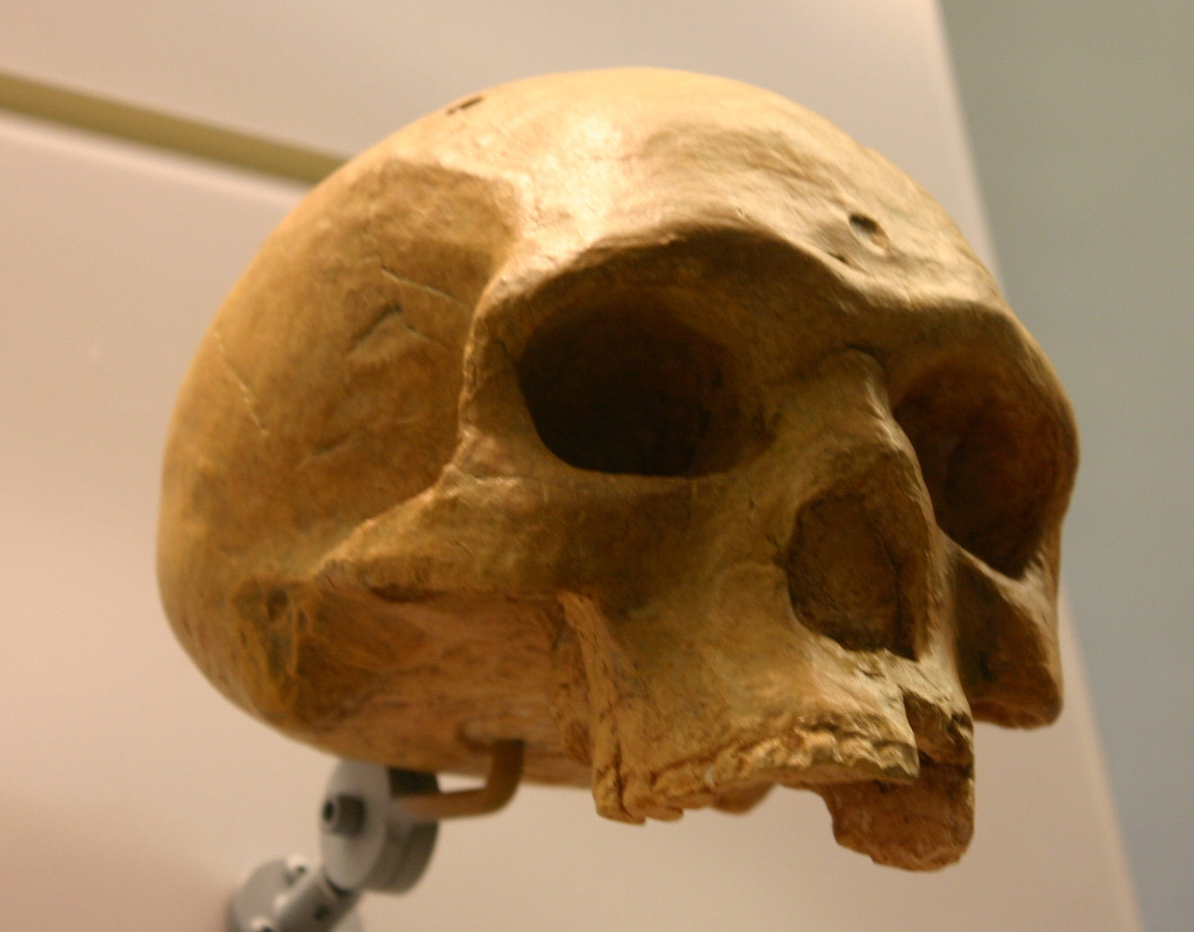 Taken at the David H. Koch Hall of Human Origins at the Smithsonian Natural History Museum.